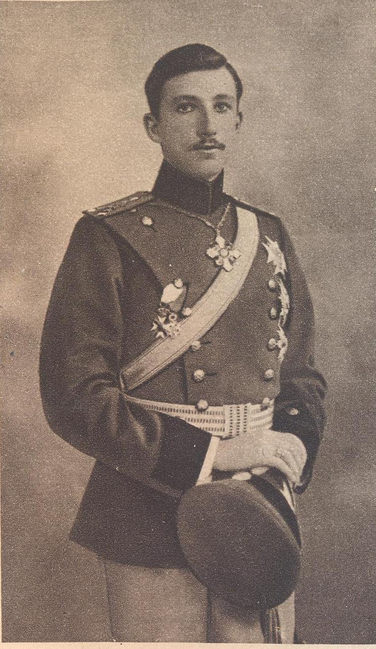 Boris III of Bulgaria. Rudolf Mosse, "Album de la Grande Guerre" №10, 1915